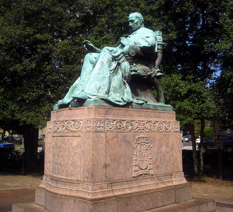 The memorial honoring James Cardinal Gibbons located at the intersection of 16th Street and Park Road, NW in the Columbia Heights neighborhood of Washington, D.C.